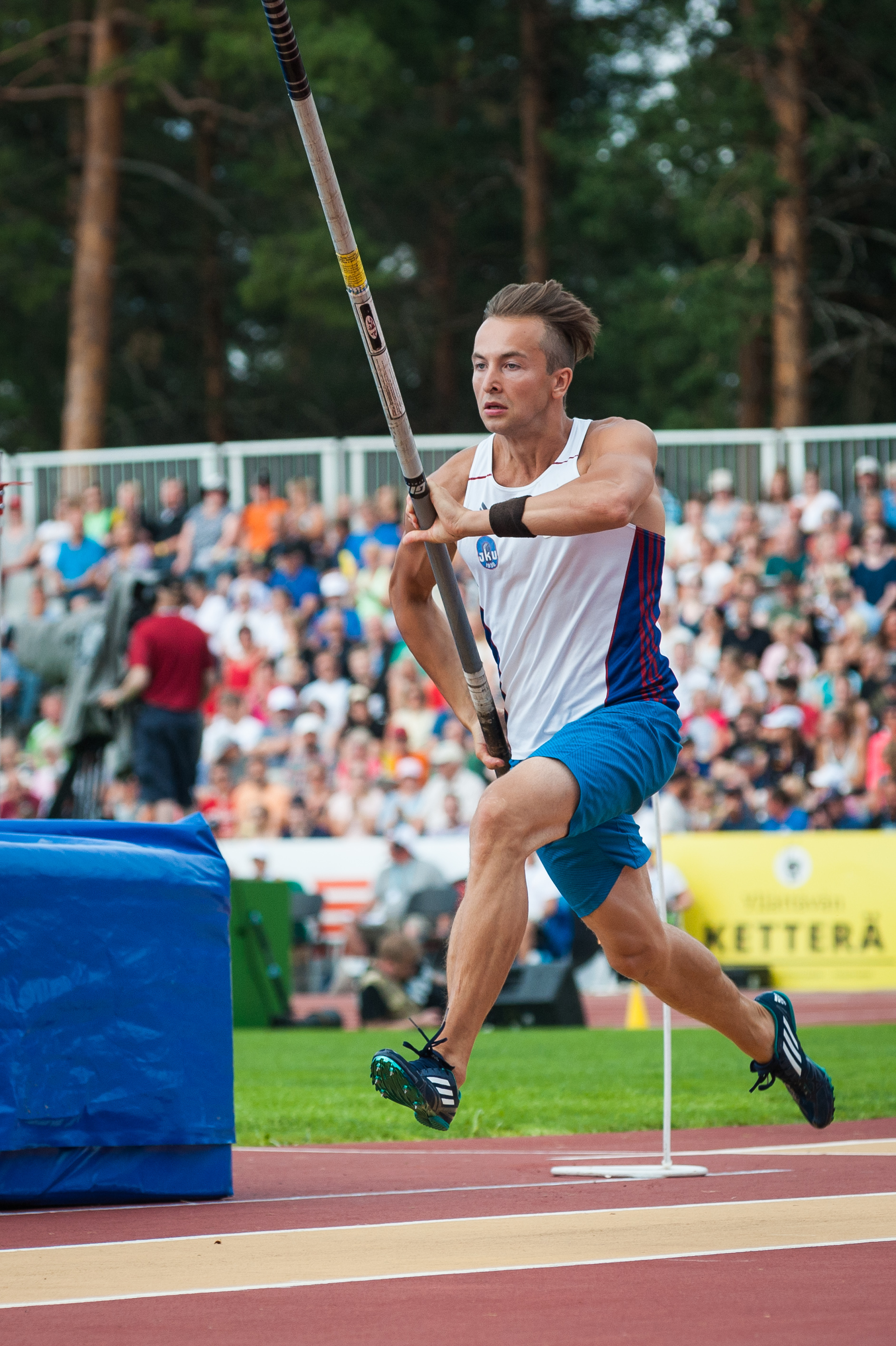 Men's pole vault competition at the 2018 Kalevan Kisat, the Finnish championships in athletics, in Jyväskylä, Finland.